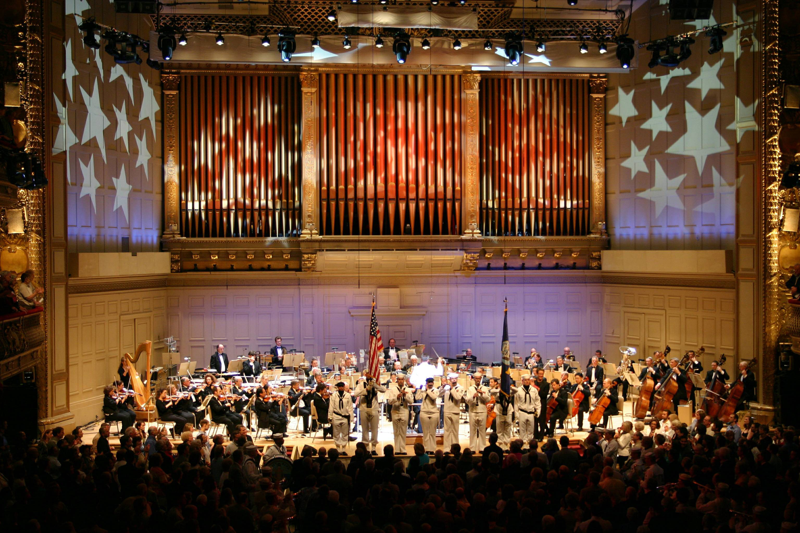 The USS Constitution color guard team presents colors as the Navy Northeast Marching Band joins the world-renowned Boston Pops Orchestra for the grand finale of "America!" Thousands were on hand at the annual performance at Symphony Hall for an evening of patriotic songs.